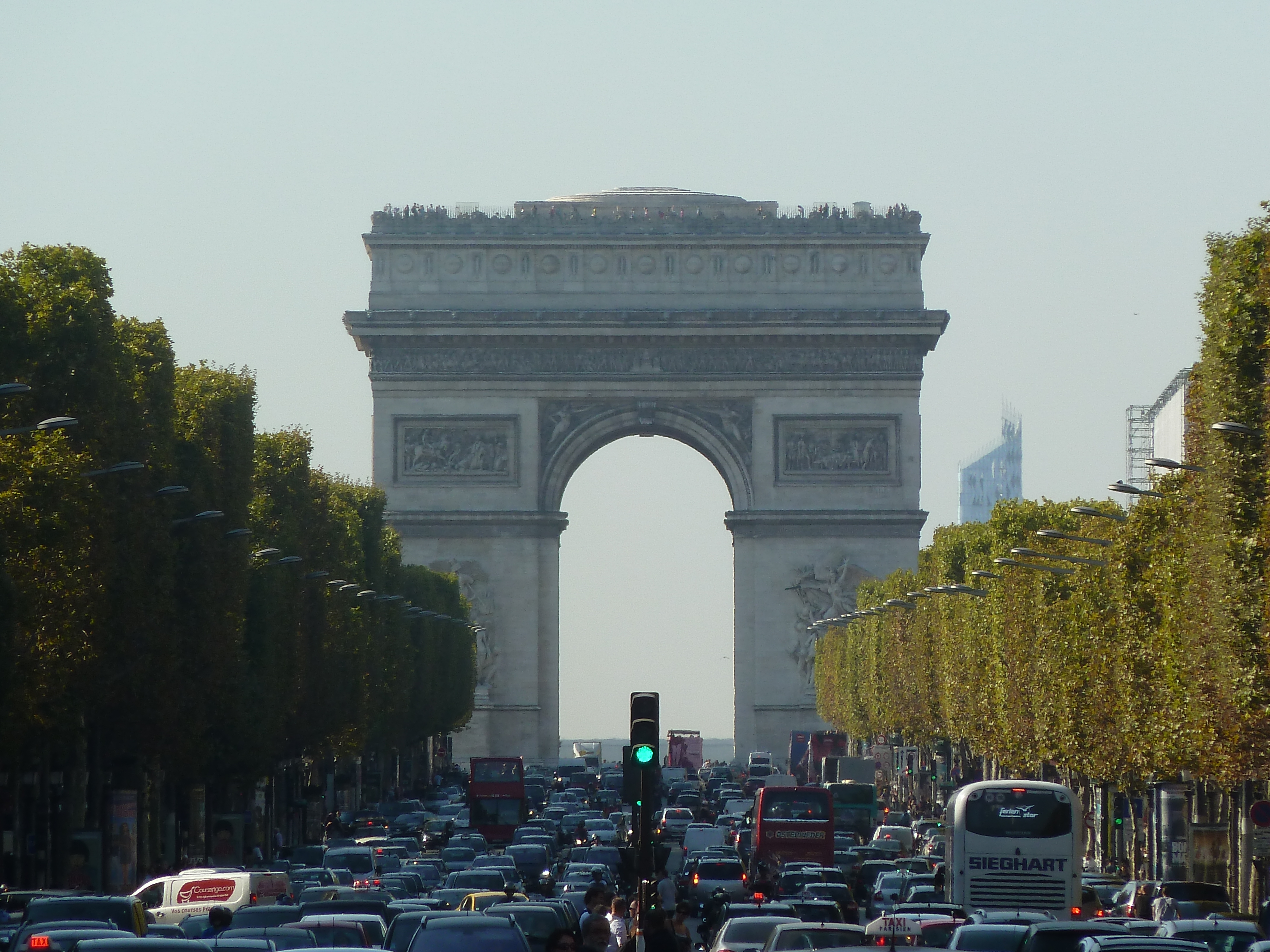 Champs-Élysées - eastern view